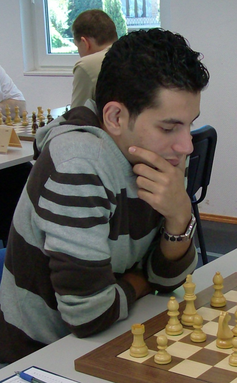 Ahmed Adly, chess grandmaster from Egypt